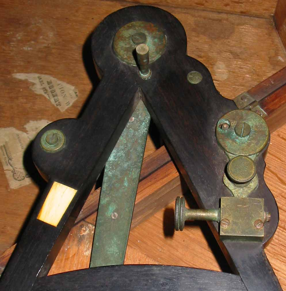 Photo of octant details. Reverse side of octant showing some brass components and the ivory notepad.